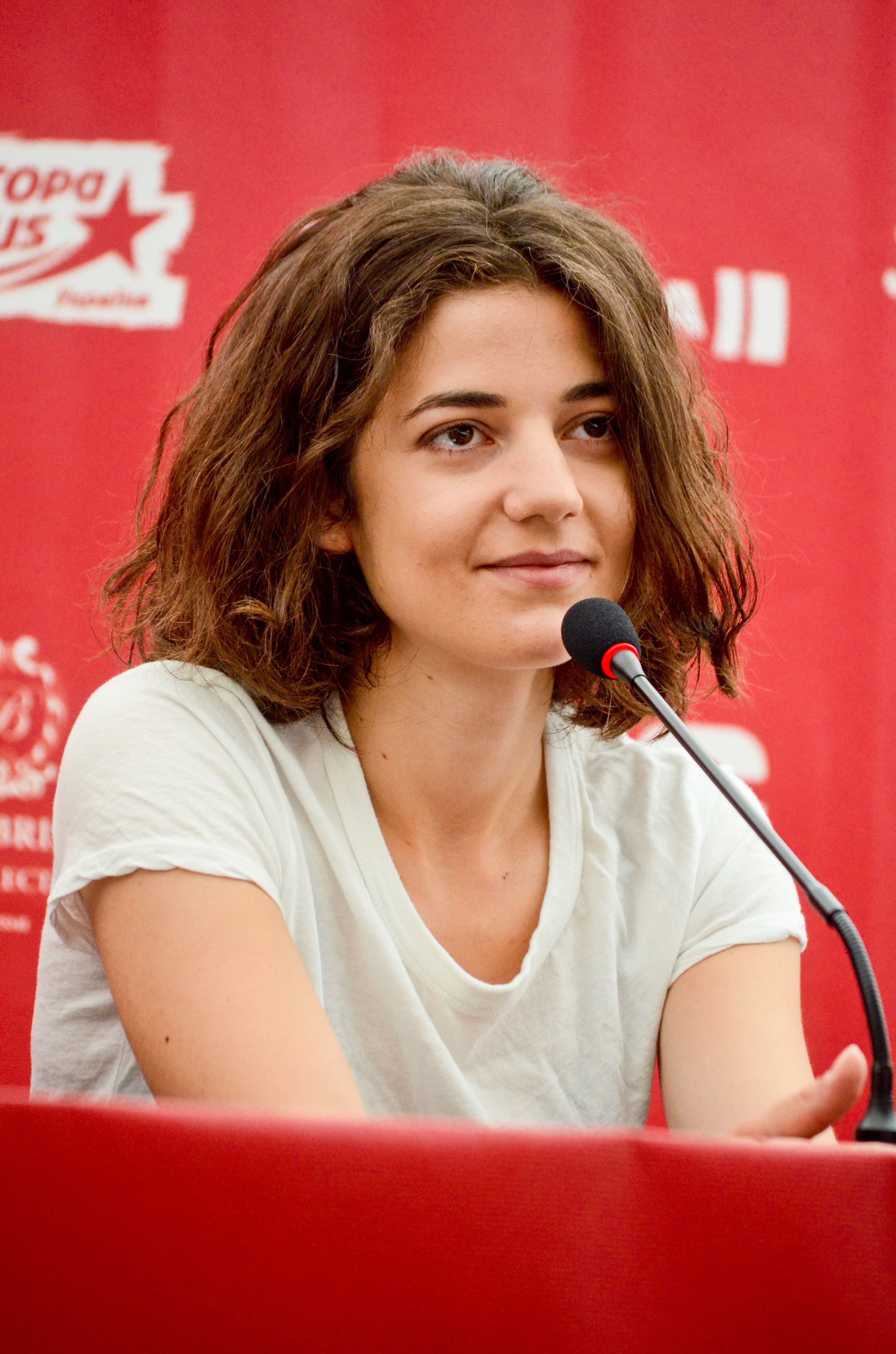 French actress Esther Garrel at the 6th Odessa International Film Festival.